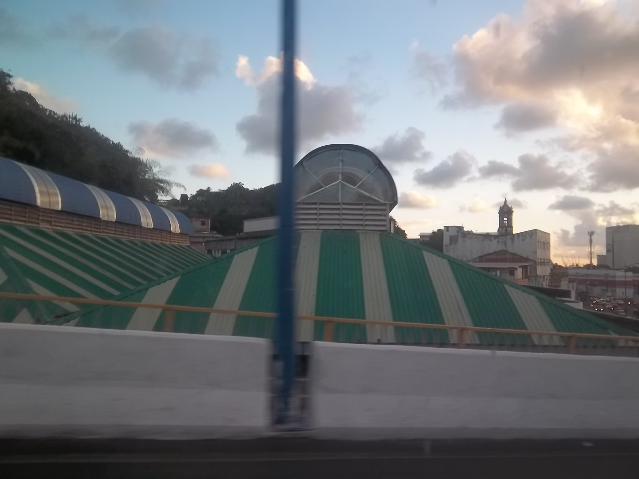 Mercado do Peixe de Água de Meninos, Salvador, Bahia.